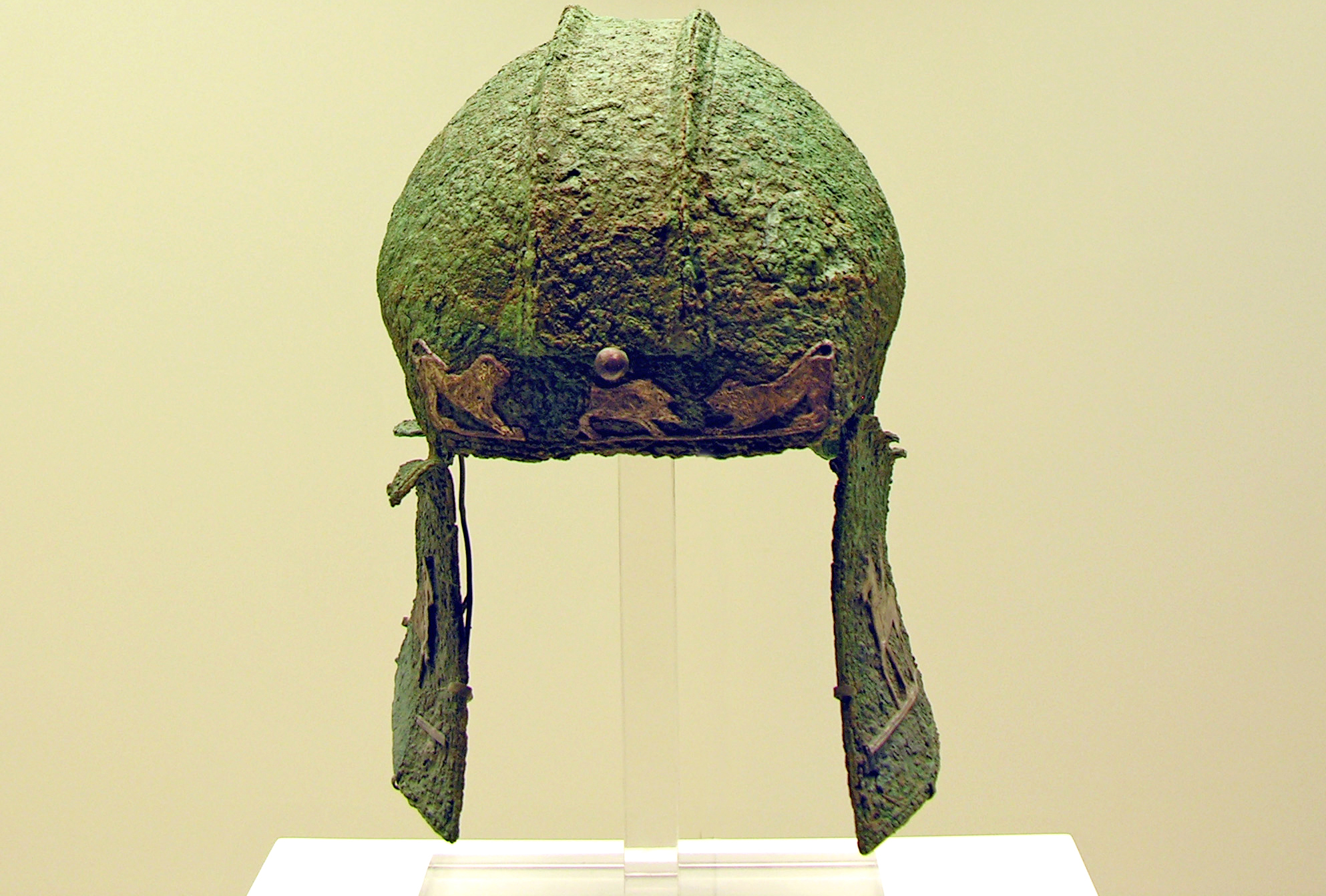 PLEASE, no multi invitations, glitters or self promotion in your comments. My photos are FREE for anyone to use, just give me credit and it would be nice if you let me know. Thanks